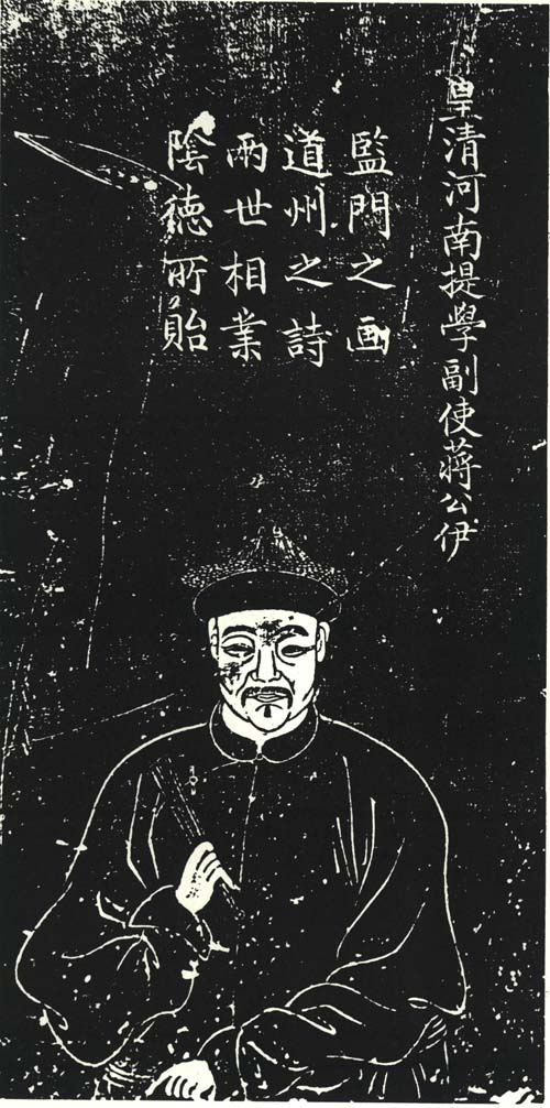 Jiang Yi